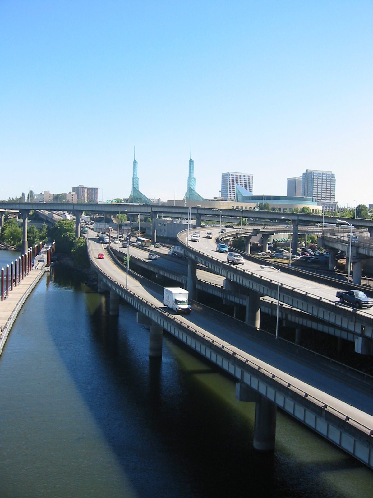 As seen from the Burnside Bridge